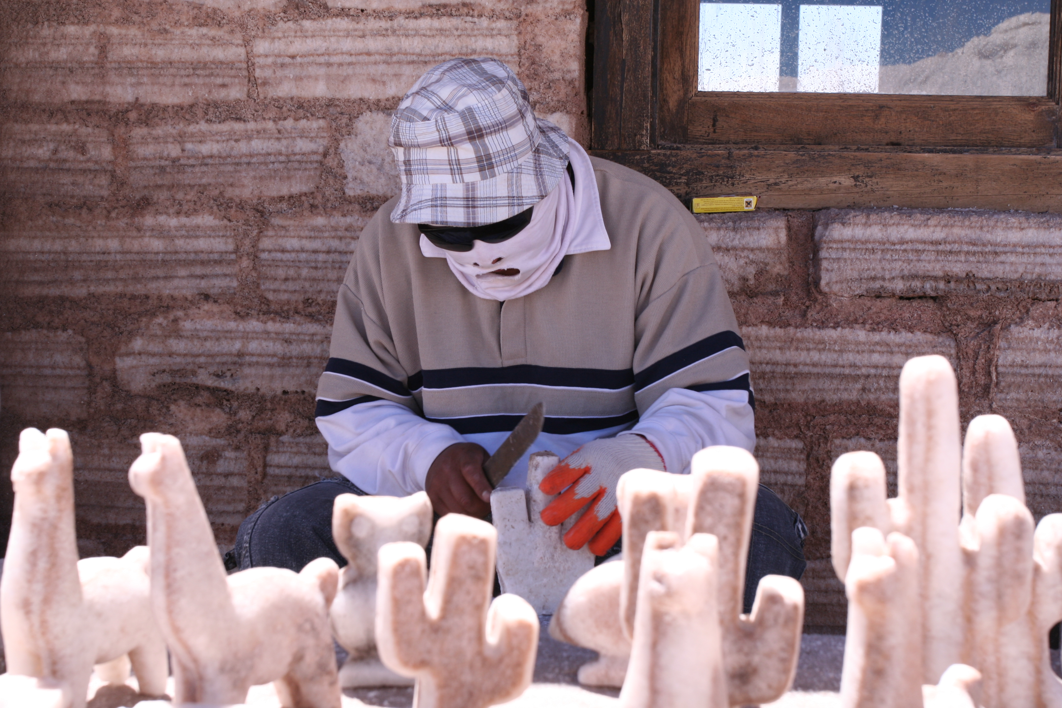 Salt sculptures in Salinas Grandes, Salta province (Argentina).